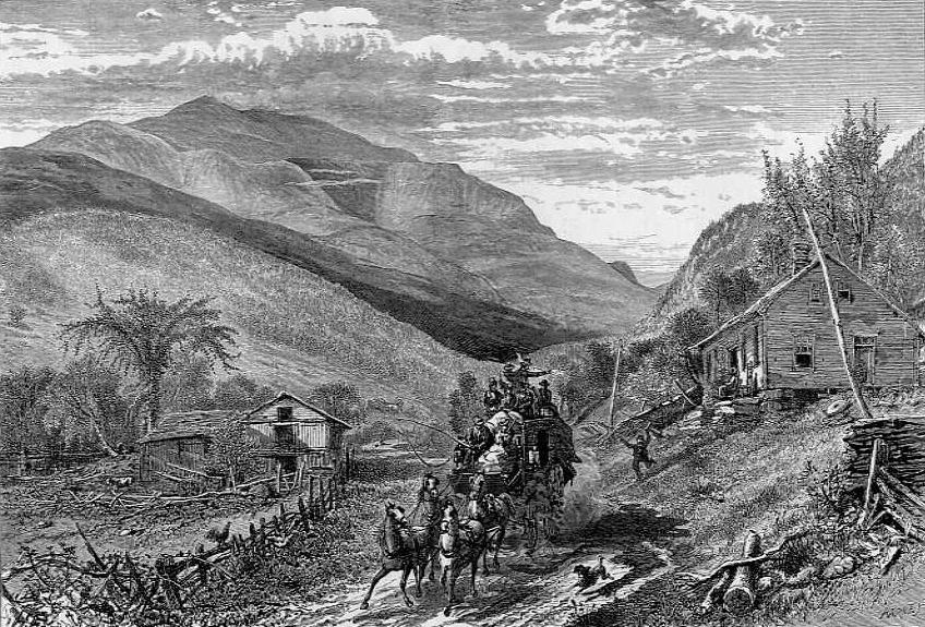 Mount Washington, from the Conway Road, a wood engraving drawn by Harry Fenn and published in Picturesque America, 1872, D. Appleton & Company, New York, New York.